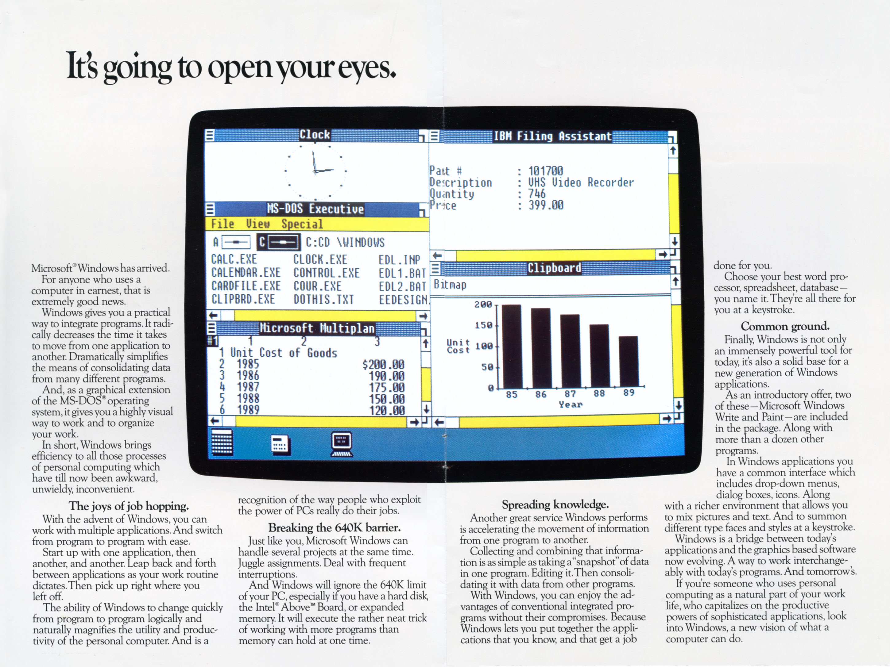 Microsoft Windows 1.0 was released November 20, 1985. This eight page brochure, "Microsoft Introduces Power Windows", was printed in January 1986 and is 7.25 inches wide by 10.875 inches high (184 mm by 276 mm).